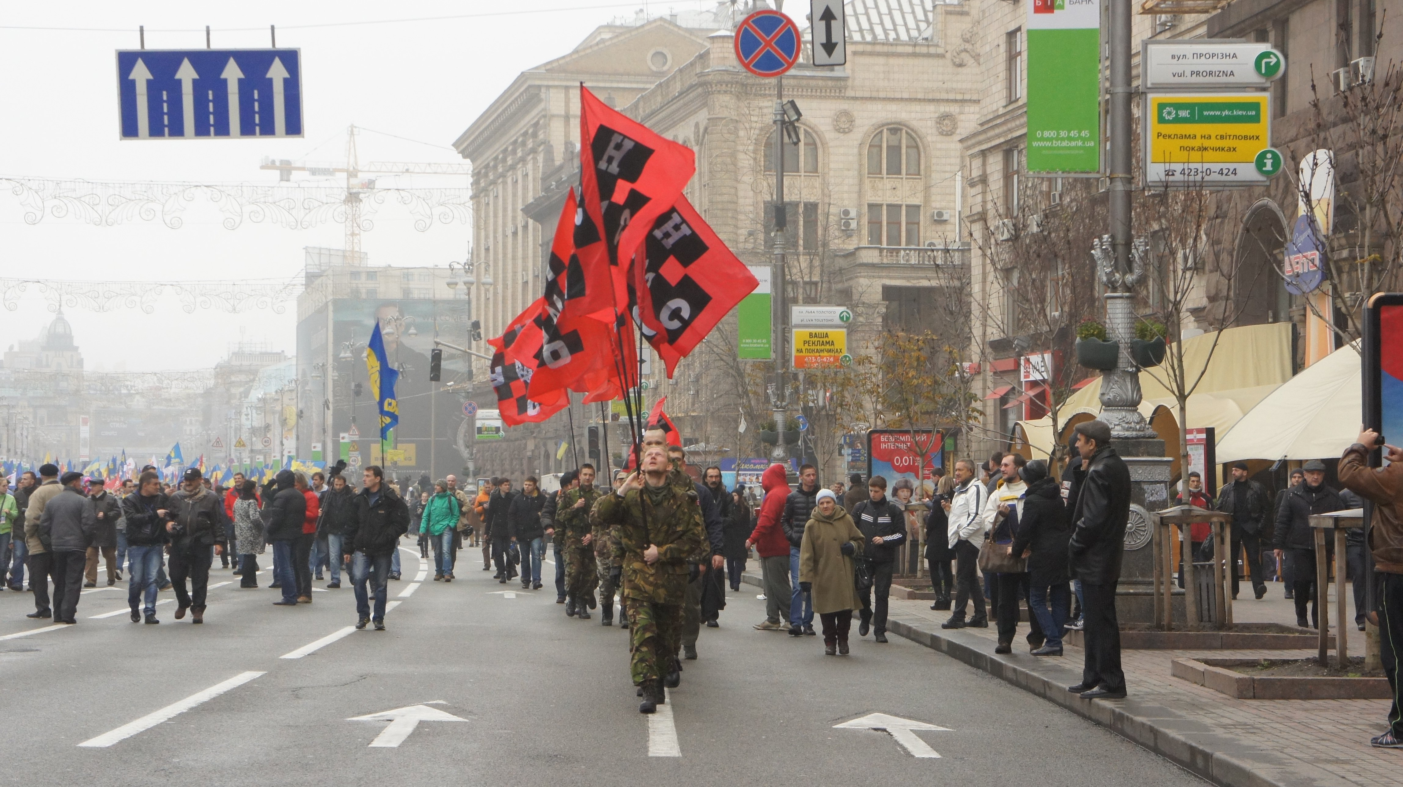 UNA-UNSO members march in Kiev, November 24, 2013.